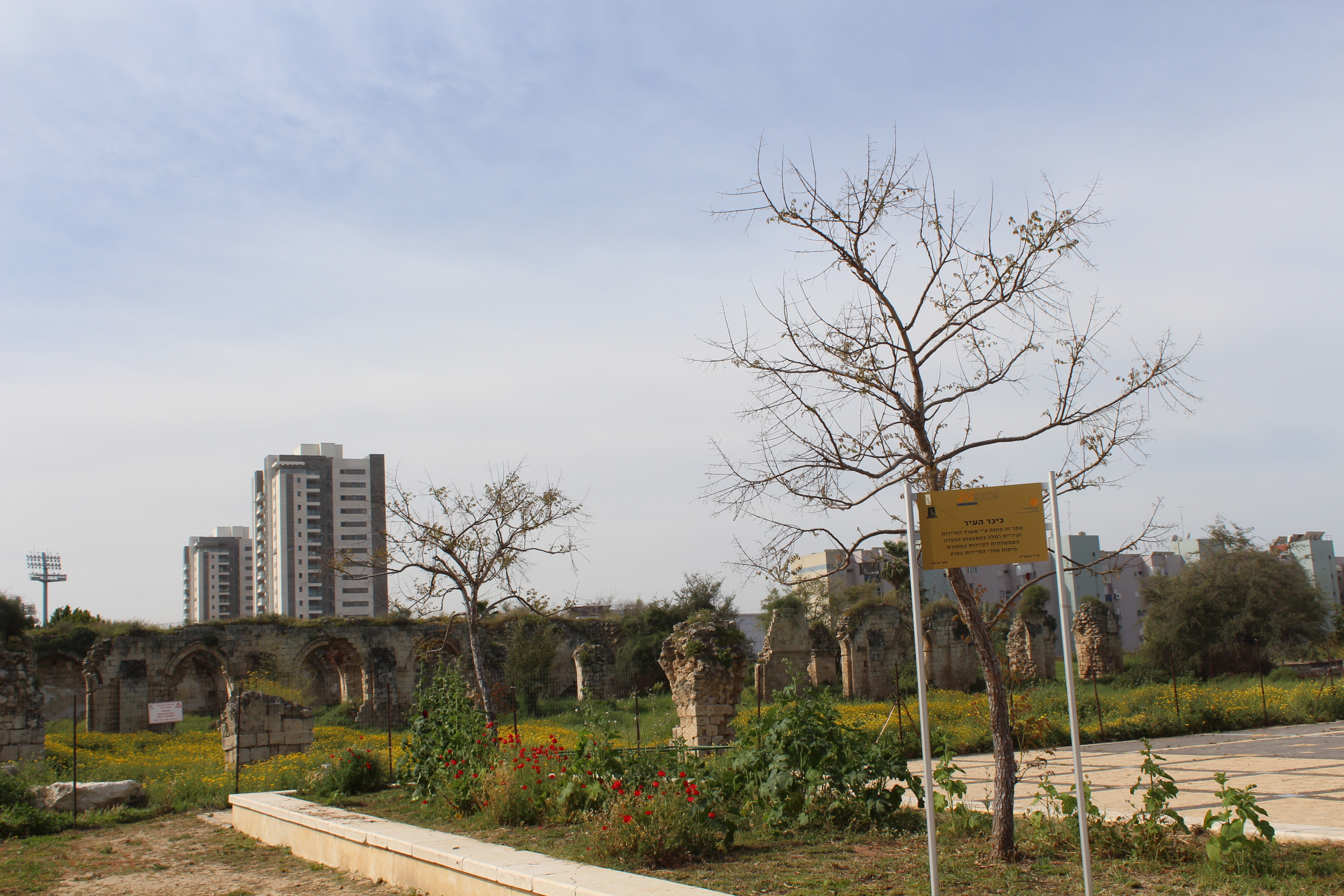 The White Mosque, Ramla, Israel This image was taken as part of the Elef Millim project trip to Ramla, in Israel which was held on Friday, 27th March 2015. To view all images uploaded as part of the Elef Millim Project